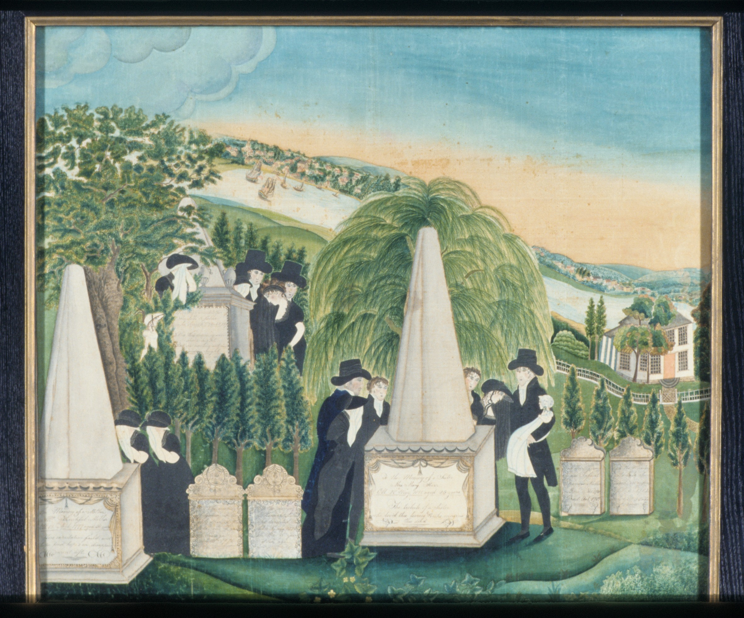 American; Memorial painting; Textiles